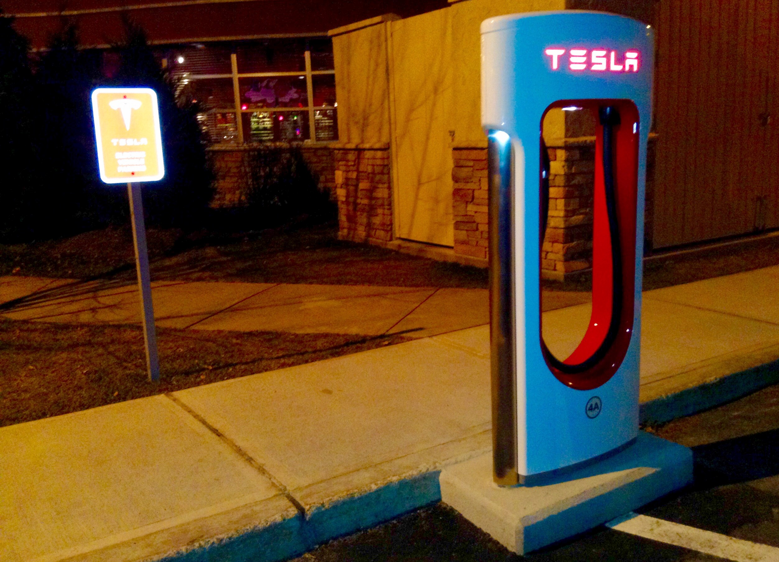 Tesla Electric Car Recharging Station Corbin's Corner West Hartford behind Red Robin